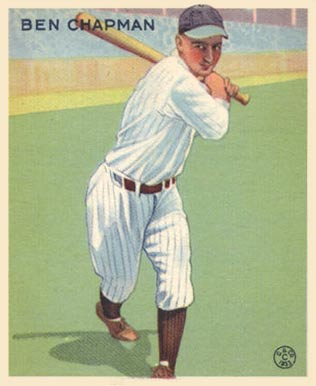 1933 Goudey baseball card of Ben Chapman of the New York Yankees #191. PD-not-renewed.